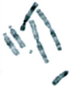 Karyotype of male Indian muntjac (Muntiacus muntjak). 2n=7 (female has 2n=6).